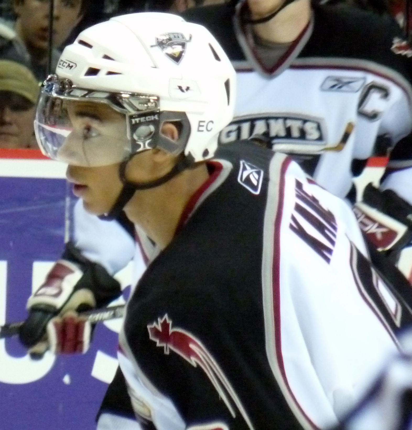 Vancouver Giants forward Evander Kane in Game 7 of the second round of the 2009 WHL playoffs against the Spokane Chiefs.